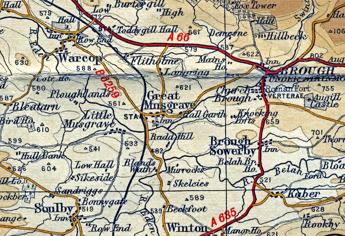 Scan of 1935 map of Cumbria showing the location of Musgrave railway station